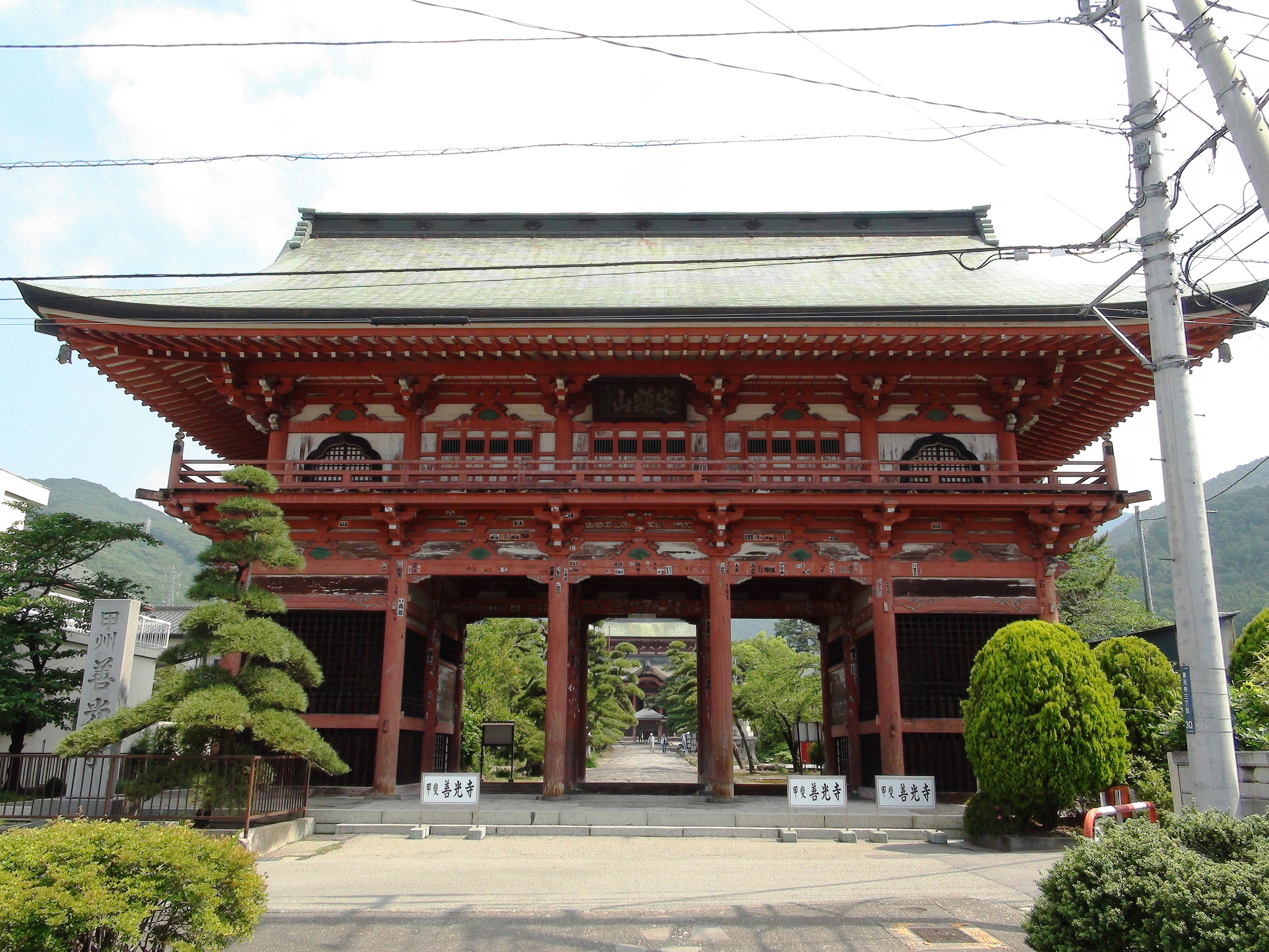 Kai-Zenkoji-temple main gate